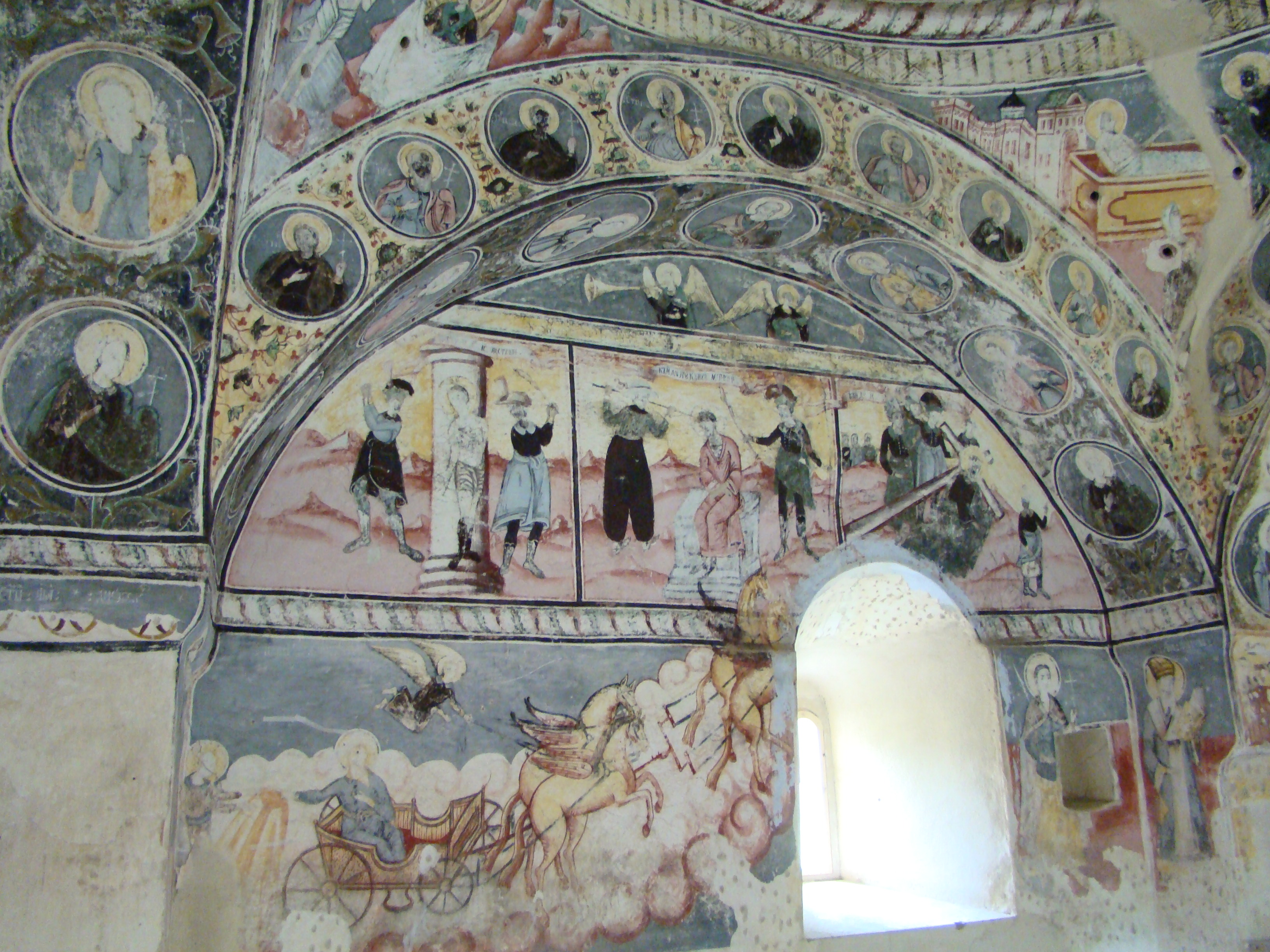 inner paintings of the former monastery church in Geoagiu de Sus, Alba County, Romania